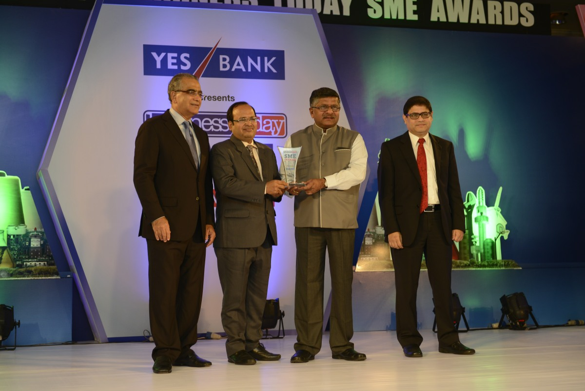 VAV Life Sciences wins the Business Today SME award 2013 under the innovation category.